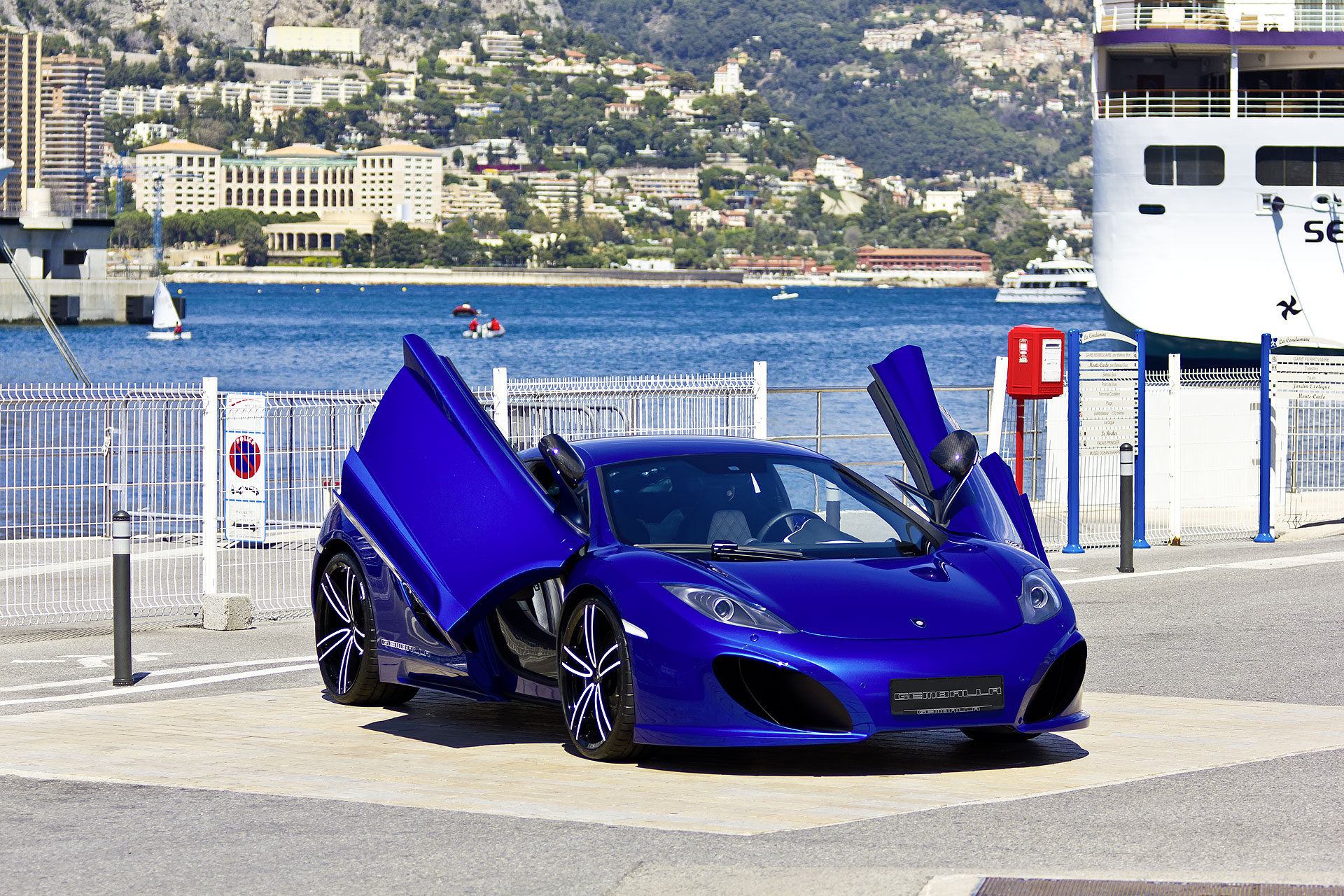 Picture was shot in Monaco at the harbour